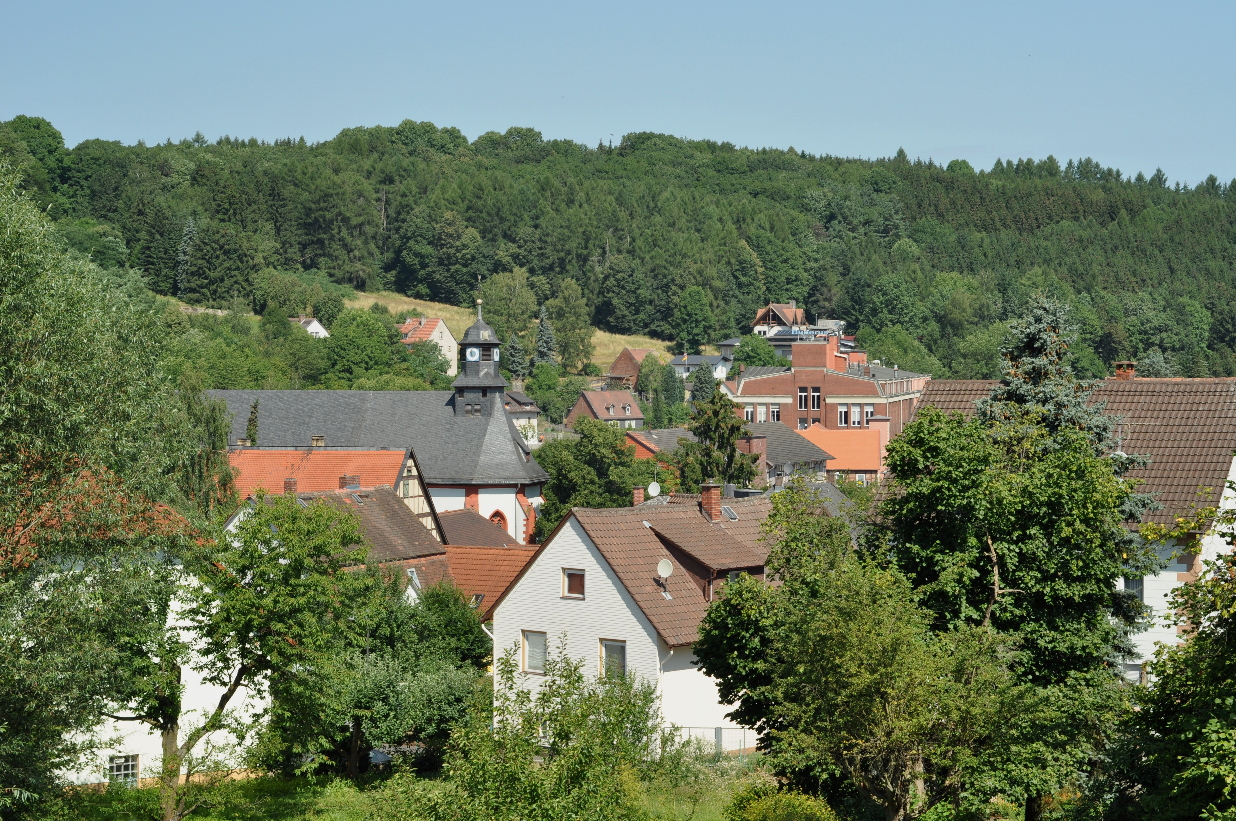 Hirzenhain im Juli 2010